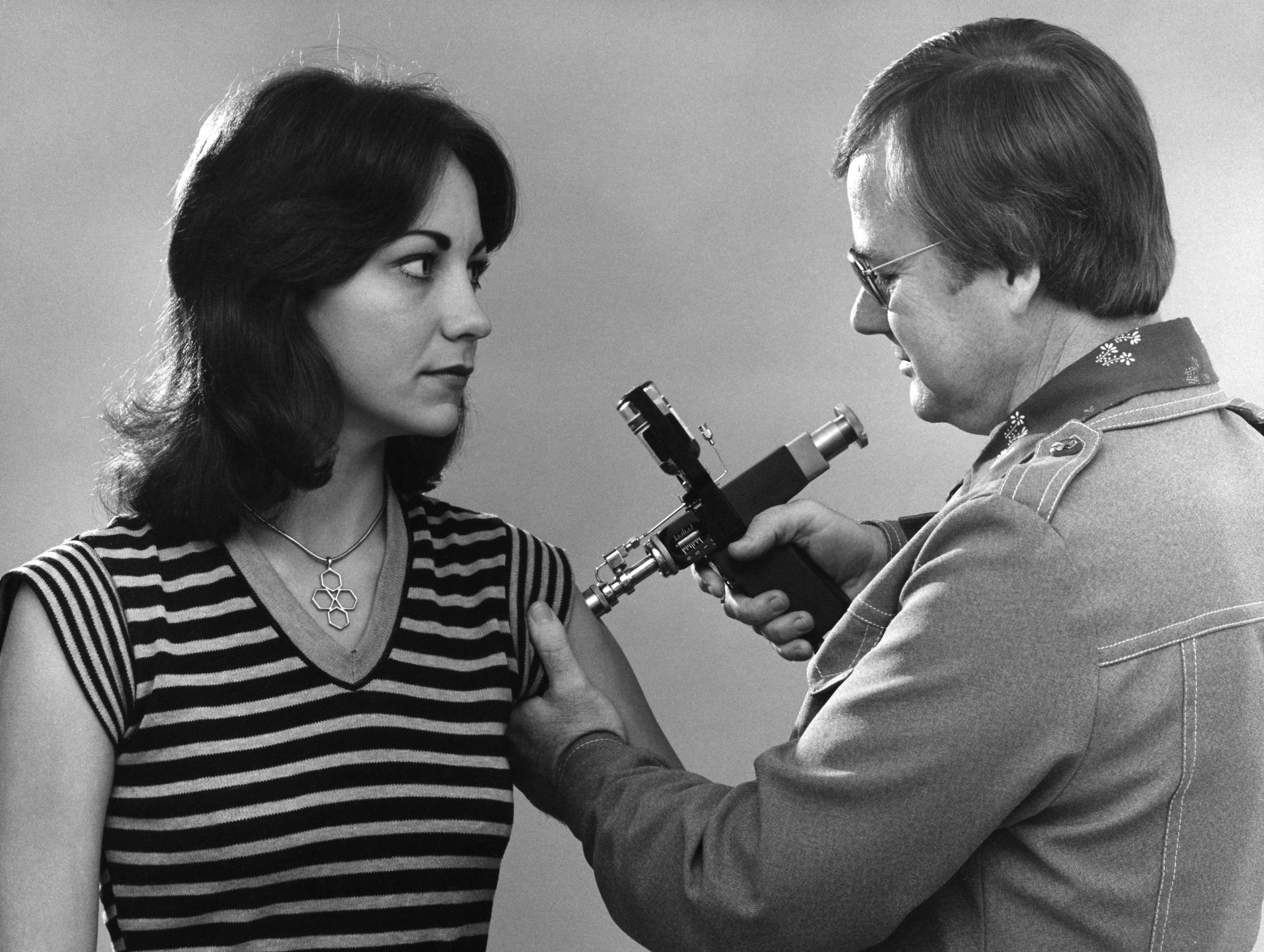 An adult female receiving a vaccination that was administered by a public health clinician, by way of a jet injector during the nationwide swine flu vaccination campaign, which began October 1, 1976. This rare influenza strain, “A/New Jersey/76 (Hsw1N1) influenza virus”, was reported among soldiers at Fort Dix, New Jersey, where one patient died. A very similar strain killed 500,000 people in the United States, and more than 20 million worldwide, during the pandemic of 1918–1919. In response to the 1976 outbreak, in order to prevent another epidemic, 50 million Americans were vaccinated during a 10 week period, setting an immunization world record.